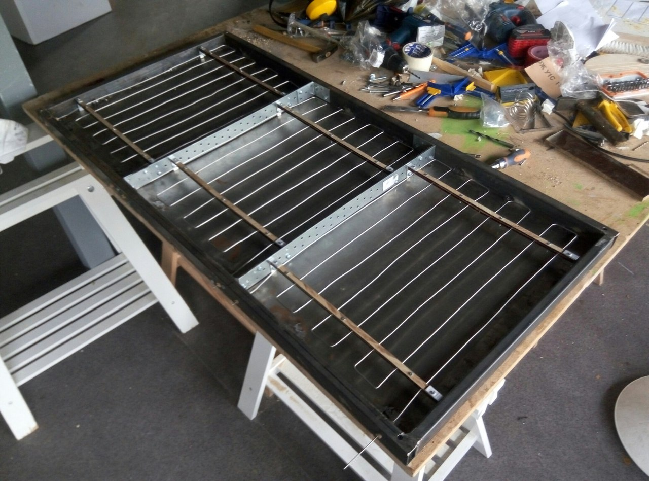 DIY Heat Press